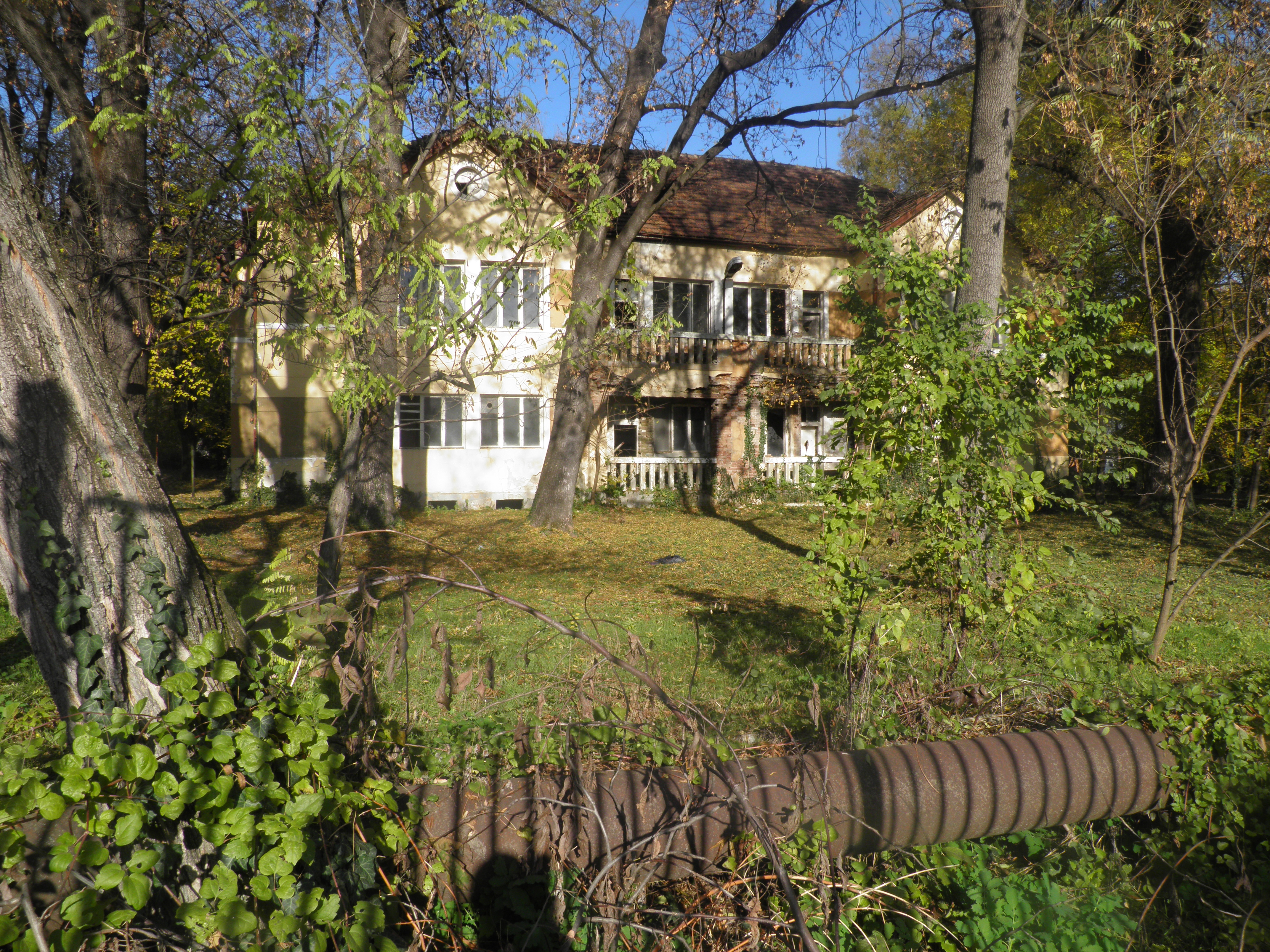 Old house in Gorna Oryahovitsa